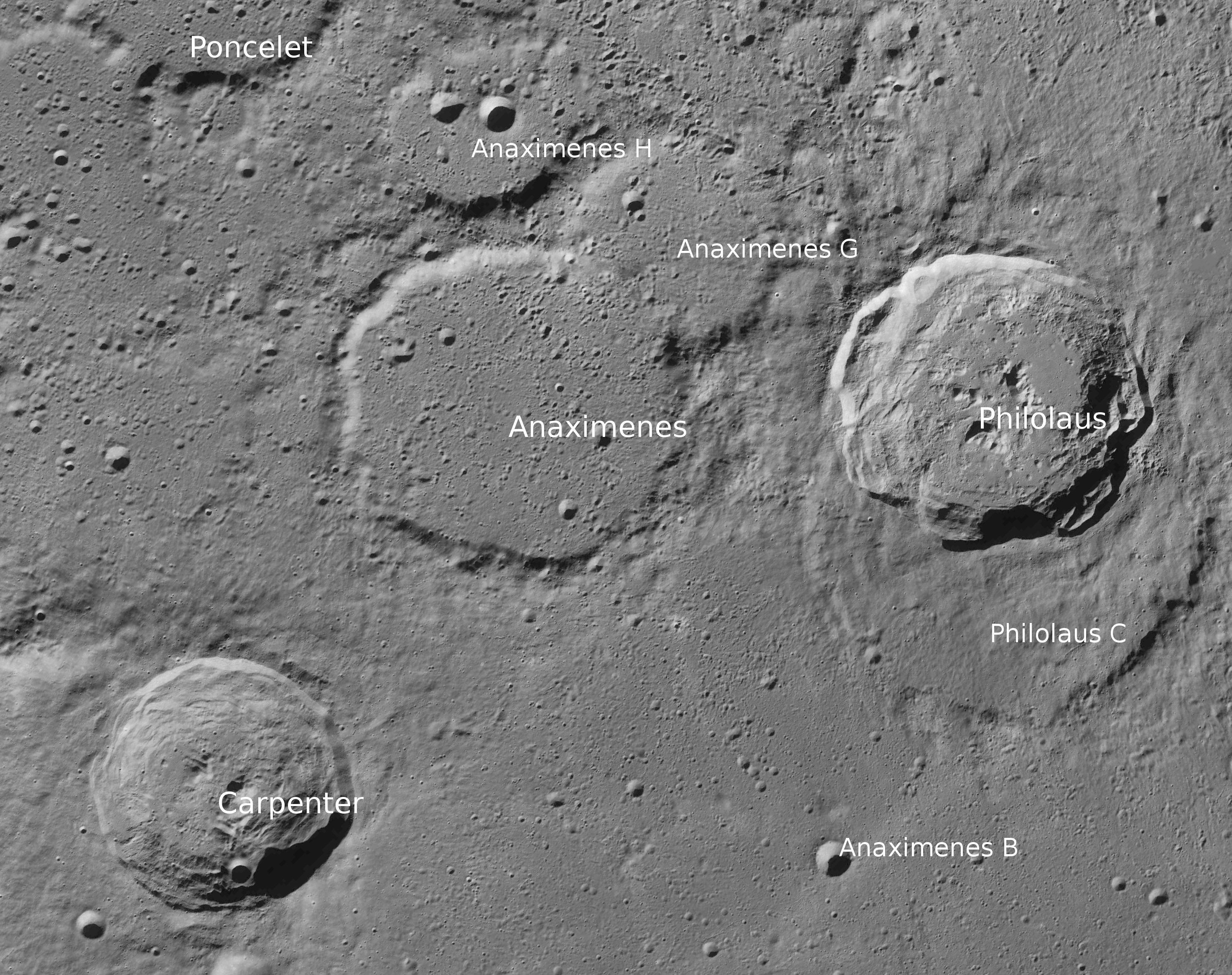 Moon crater Anaximenes with satellite features and craters Carpenter (below left) and Philolaus (right) (north at top; detail of LRO - WAC north pole mosaic)